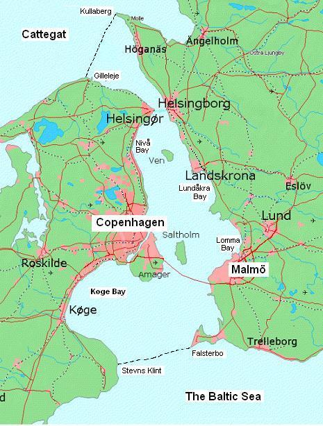 An improved map of Øresund. Made from an existing one found on Wikimedia Commons. Improvements are - boundaries in both north and south, boundary landmarks labeled, no "Ö-letter" in Denmark. Copenhagen spelled in English. Four bays labeled. Also, there is no fixed connection in the north and most narrow part, but ferries. Towns and cities have grown since original map was made. Western Amager is NOT buld up. Cattegat and the Baltic Sea written on the map.